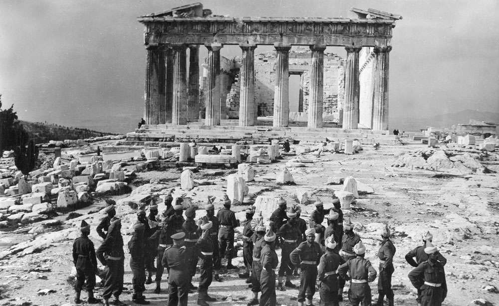 5th Indian Infantry Brigade arrived at Piraeus, the port of Athens, on 9-10 December 1944 to join other British troops supporting the Greek government against Communist resistance groups. The brigade succeeded in clearing them from Piraeus and reopened communications between the port and Athens. After further successful counter insurgency operations the Indian troops handed over to Greek government forces and were withdrawn in mid-January 1945. From a collection of 233 official photographs collected by Captain Roy Wiltshire in his capacity as Editor of the Indian Army Review.